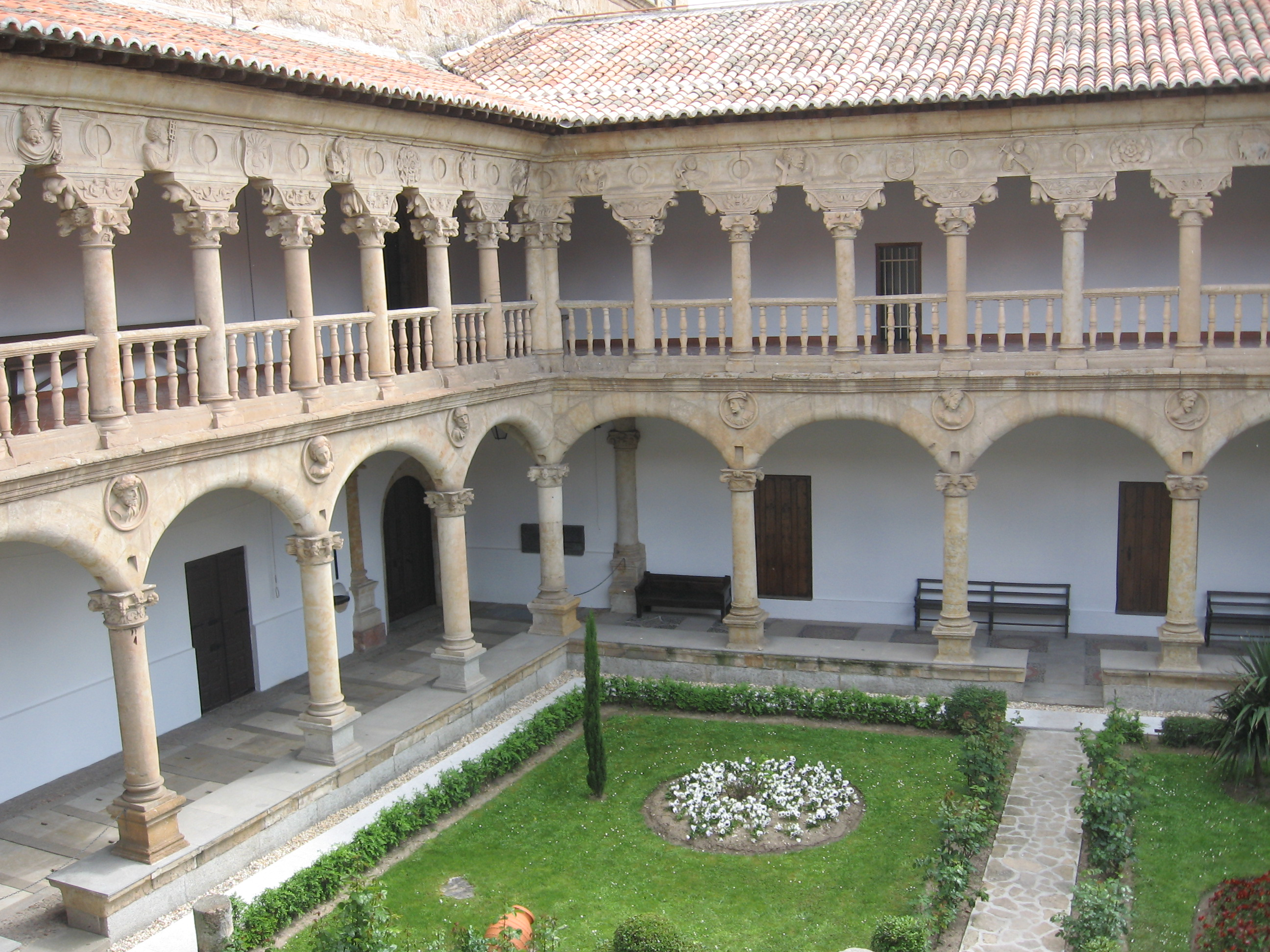 Cloister of Convento de las Dueñas, Salamanca, España; made by Rodrigo Gil de Hontañón in 1533.